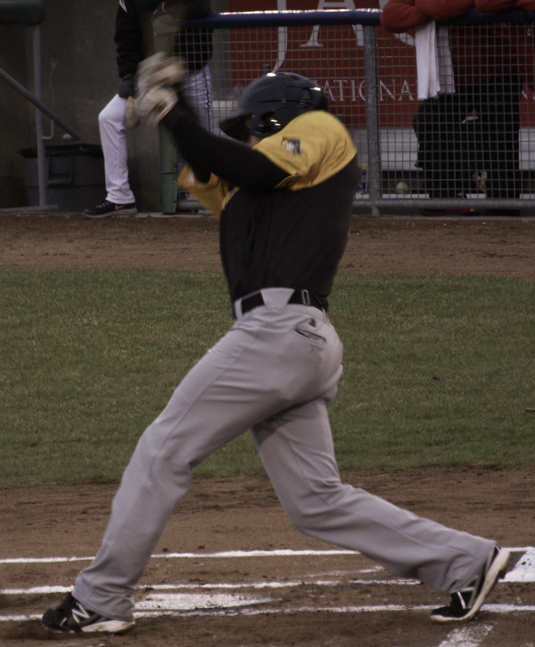 Ryan Court of the South Bend Silver Hawks swings at a pitch during a 2014 game at Thomas Cooley Law School Stadium in Lansing, Michigan